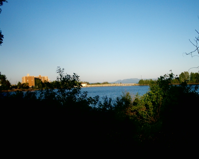 I, (Derek Silver), took this photograph on 21 June 2005. It is of Boulevard Lake, in Thunder Bay, Ontario. I hereby release it into public domain for the masses to enjoy. :)